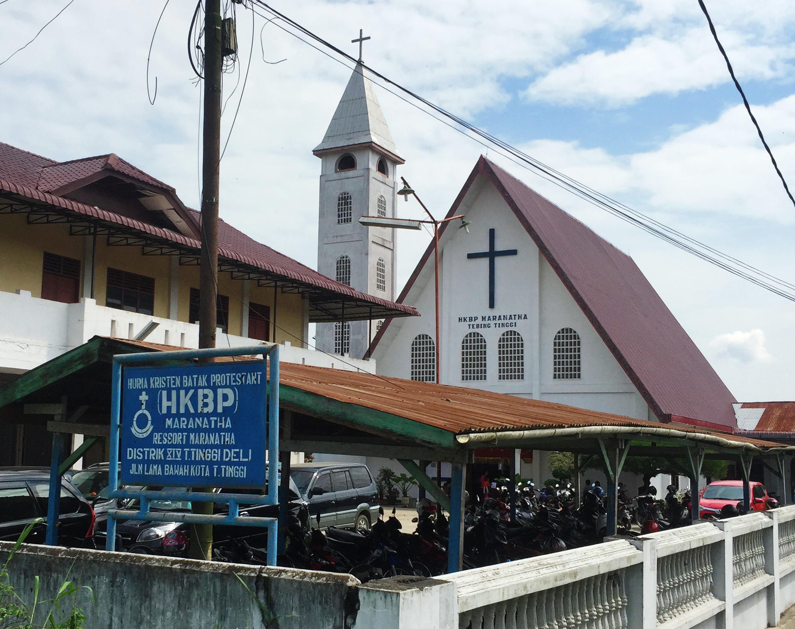 HKBP Maranatha, Church in Sri Padang, Rambutan, Tebing Tinggi, North Sumatra